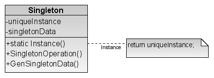 The Singleton design pattern UML diagram.